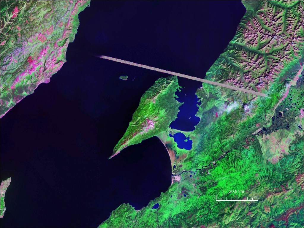 Swjatoi Nos peninsula, Lake Baikal, Burjatia, Russia